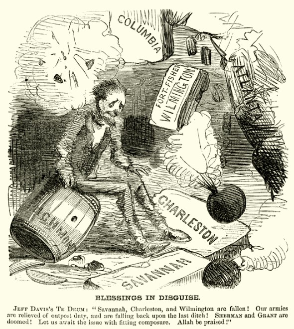 CARTOON: CIVIL WAR, 1865. 'Blessings in Disguise.' Cartoon showing Confederate president Jefferson Davis surrounded by the fallen cities of Savannah, Charleston, Atlanta, Columbia, Richmond, and Wilmington. Since these cities no longer needed to be defended, the Confederate Army could regroup and attack with new force. Wood engraving, 1865.